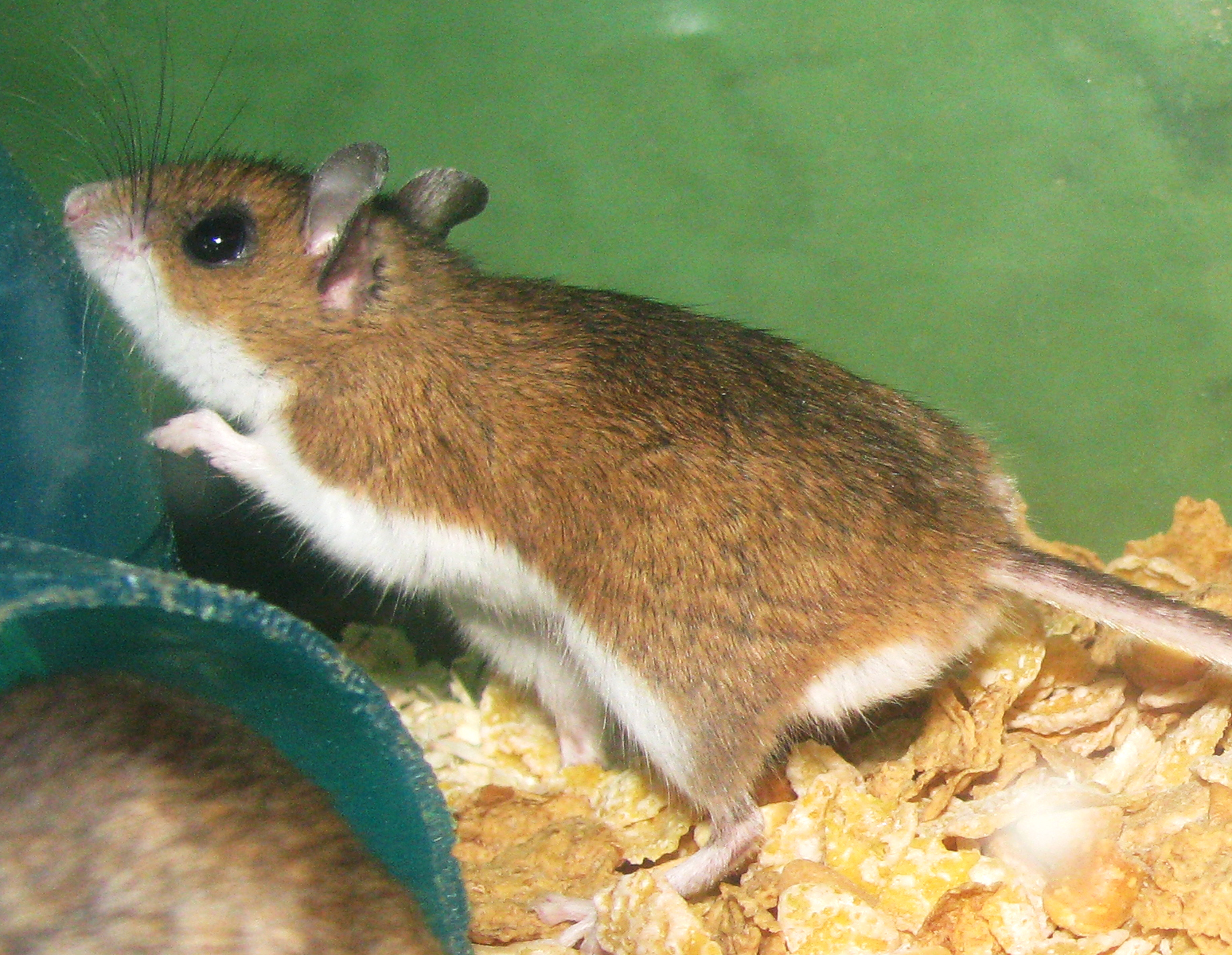 Captive bred Peromyscus maniculatus (Deer Mouse). Originally published at